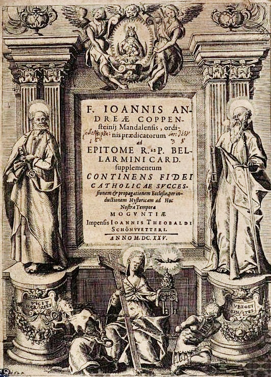 Buchtitelblatt (1625) eines Werkes von Johann Andreas Coppenstein († 1638), mit Vermerk seines Geburtsortes Mandel